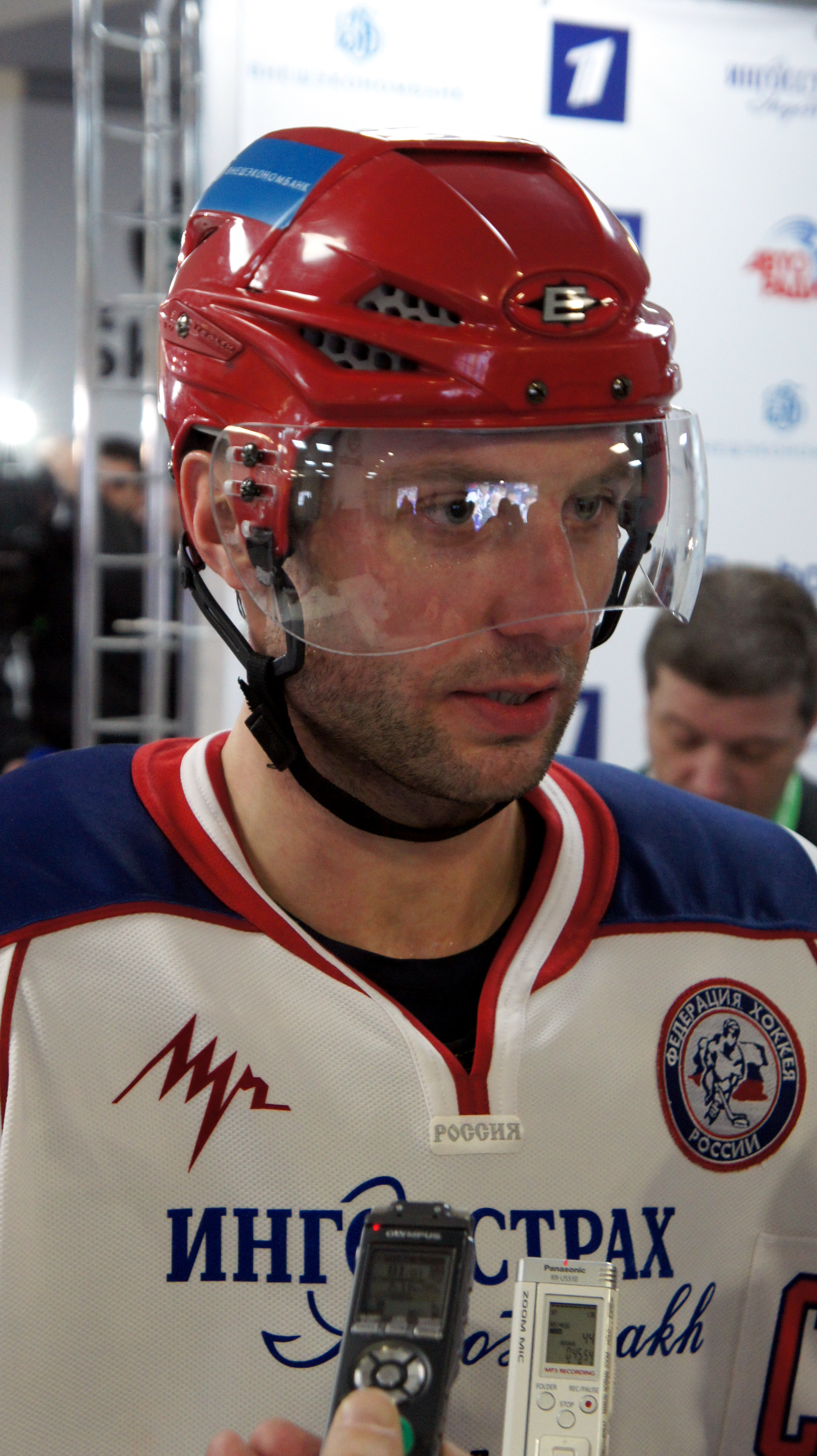 Russian ice hockey player Alexey Morozov at First Channel Cup 2010. Special thanks to Alex Malygin